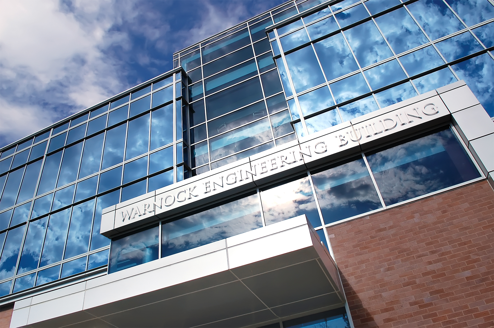 Warnock Engineering Building on the University of Utah campus in Salt Lake City, Utah